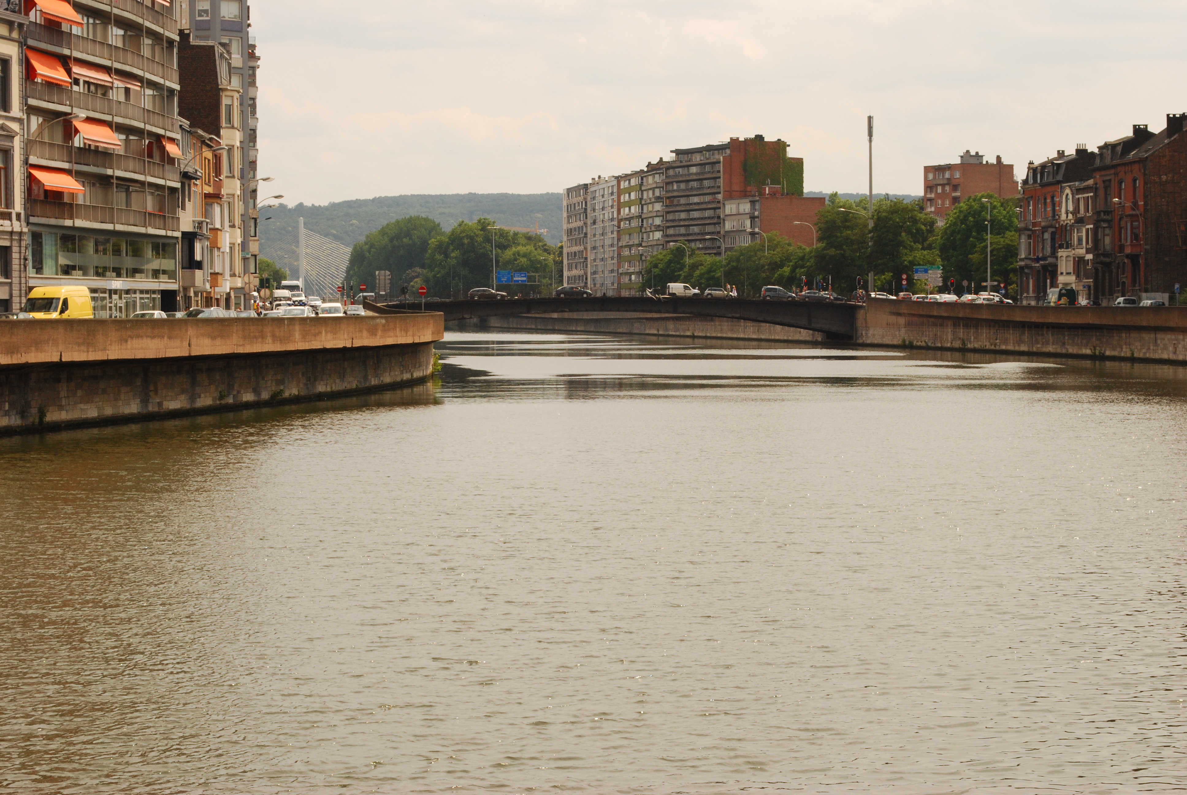 Le pont de Huy sur la Dérivation de la Meuse à Liège, entre le quai Orban et le quai de la Boverie (vue vers l'amont).